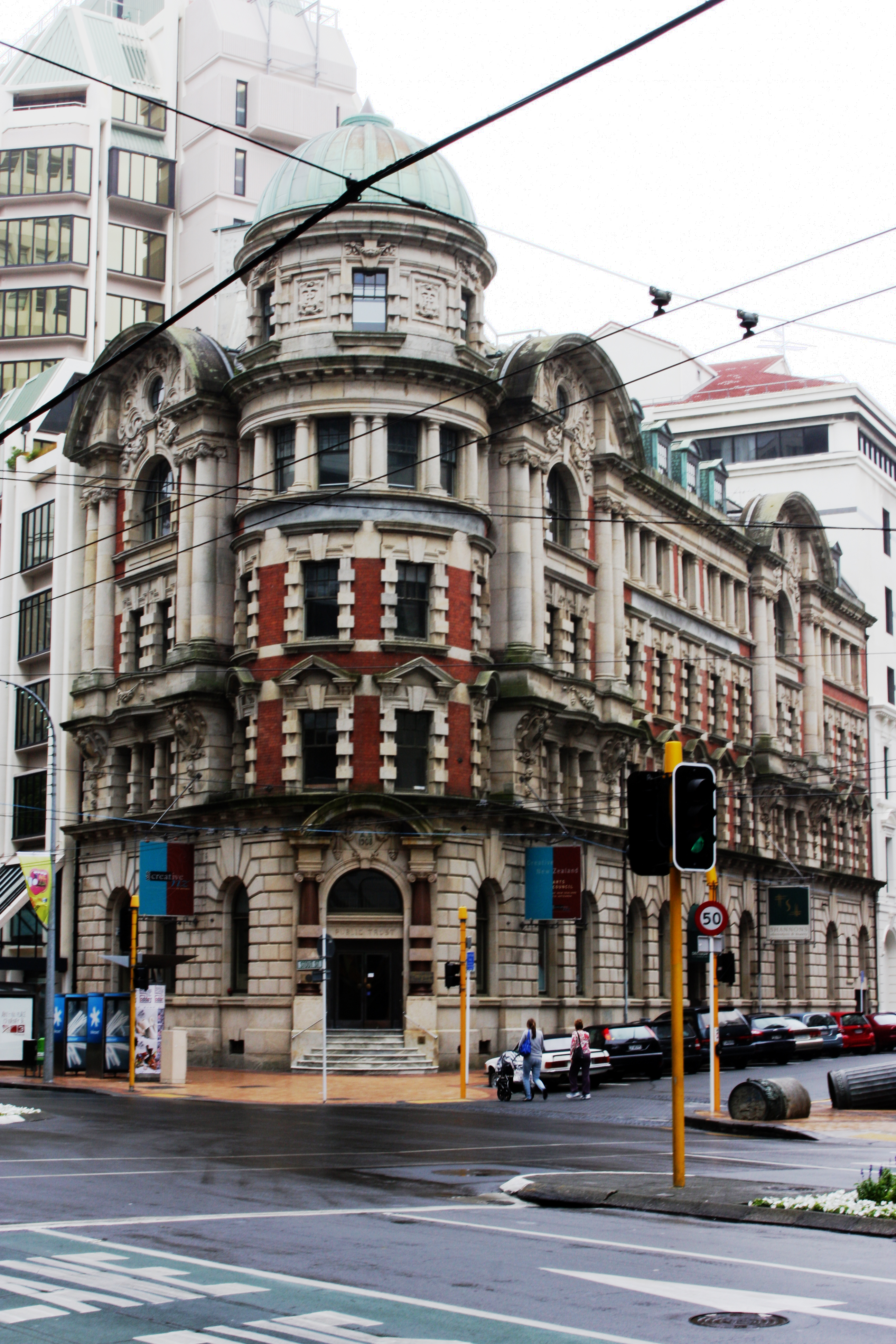 Public Trust Office Building, Wellington